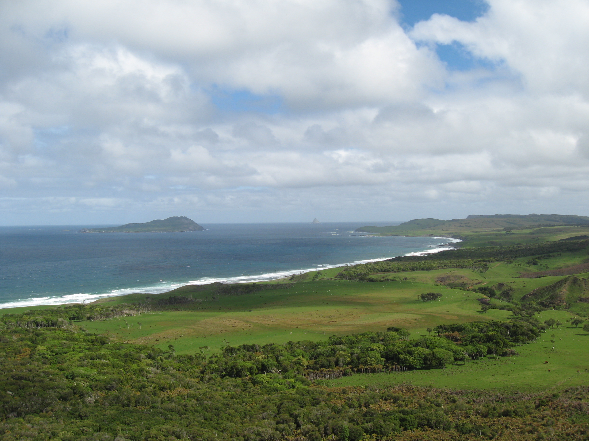 Photographed from near near Hakepa, Pitt Island (Rangiauria) - to the South. On the LHS South-East Island (Rangatira) Lat 44 20.9 S, Lon 176 10.7W and in the distance in the middle of photograph 'The Pyramid' ( Tarakoikoia) Lat 44 26.0 S, Lon 176 14.4W